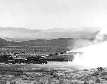 A 280-mm cannon fires a 15-kiloton nuclear shell on Frenchman Flat. The Grable test , on May 25, 1953, was the only time a nuclear artillery shell was ever fired. It was witnessed by many members of Congress.